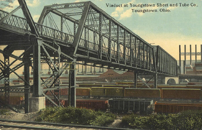 Description: Postcard of Youngstown Sheet & Tube (early 20th century)